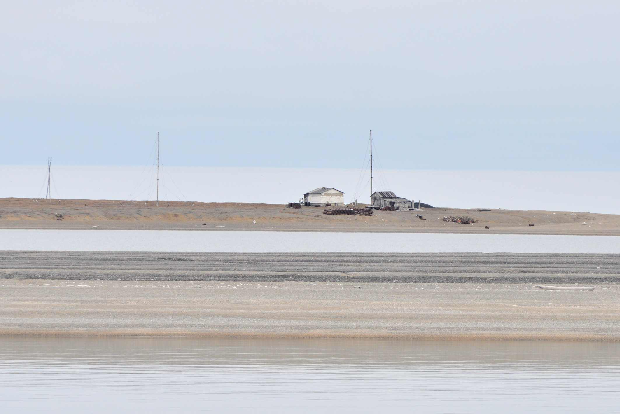 Cape Blossom Polar Station (Wrangel Island, Chukchi Sea, Russia; 70°47’N, 178°45‘30‘‘E)